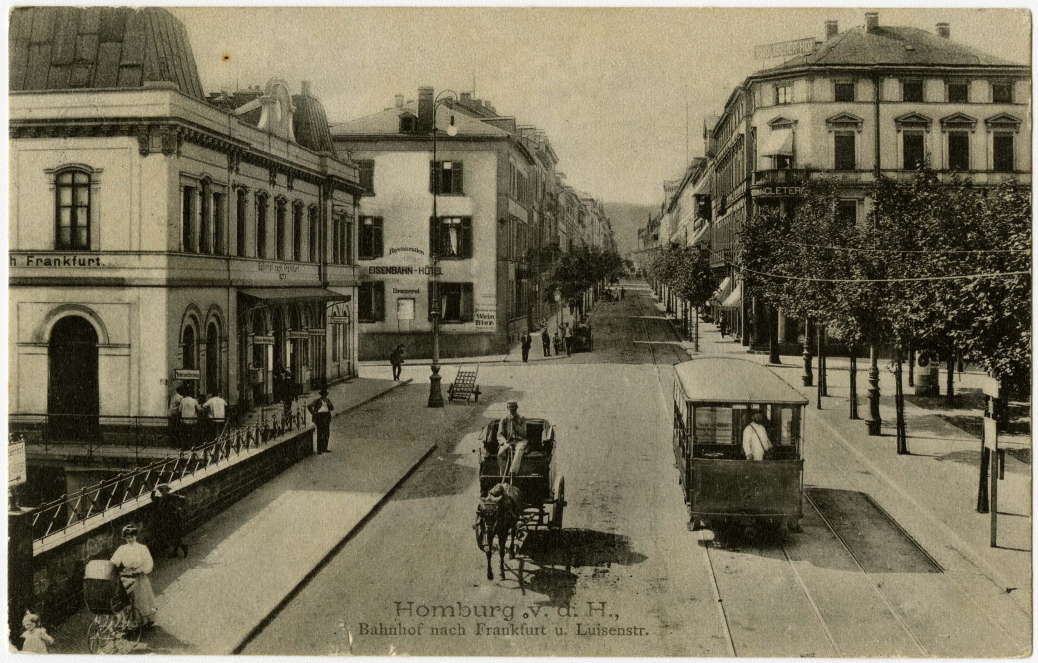 Luisenstrasse Bad Homburg with tram car (right) and main building of the old railway Station (left)